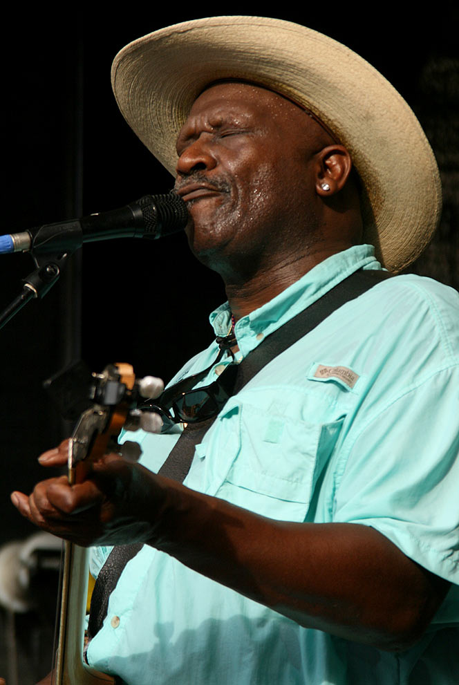 Blues musician Taj Mahal at the Museumsquartier in Vienna (Jazz-Fest Wien)